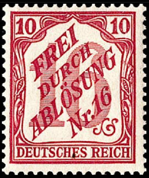 Counting postage stamp for Baden issued by German empire, 10 pfennigs, 1905